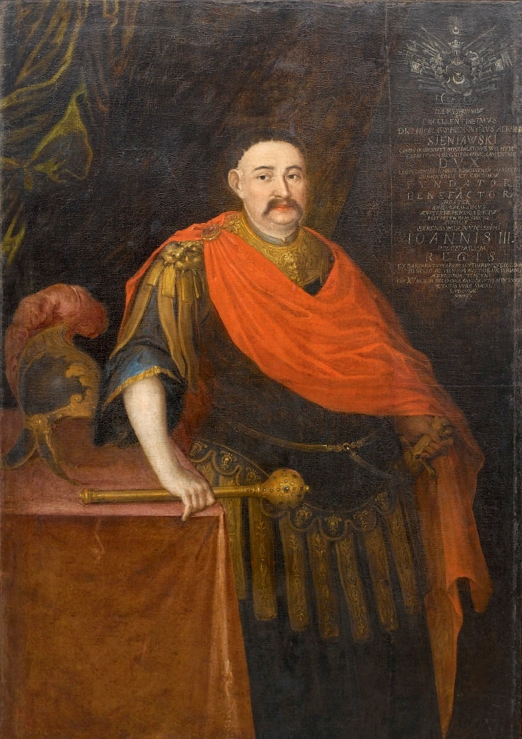 Portrait of Mikołaj Hieronim Sieniawski